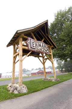 The entrance to Lehman's Hardware off of Kidron Road in Kidron, Ohio. The Lehman's campus is visible in the background.